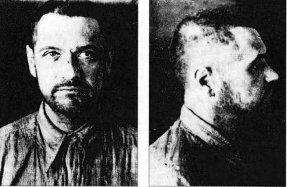 Eugeniusz Bodo (1899-1943) film director, producer and one of the most popular Polish actors and comedians of the inter-war period. After Soviet agression on Poland arrested by Soviet NKVD, died in Gulag concentration camp